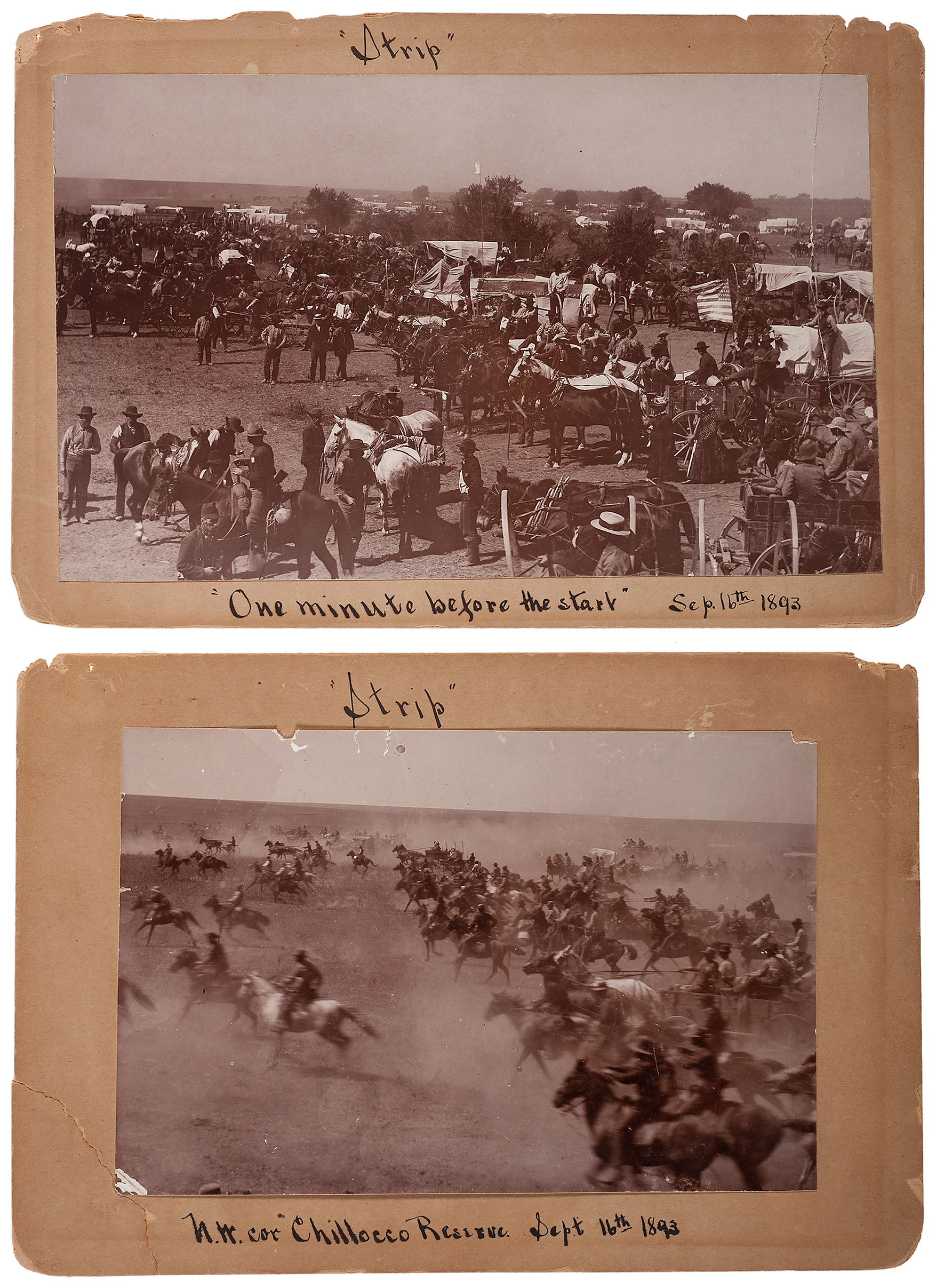 Silver gelatin prints on 6 x 8.75 in. mounts with manuscript titles: "One Minute Before the Start" Sep. 16th 1893 and N.W. cor "Chilloco Reserve Sept. 16th 1893. These historic images document the "rush" for new homesteads in the 225 mile long, 58 mile wide "Cherokee Strip" between southern Kansas and Oklahoma Territory. Sold by the Cherokee to the government, by the time of the opening, more than 100,000 people gathered on the border, nearly 30,000 alone around Arkansas City. At noon on the 16th, the homesteaders, most mounted on horseback, but others on foot and in wagons, "boomed" across the border to secured prime claims.